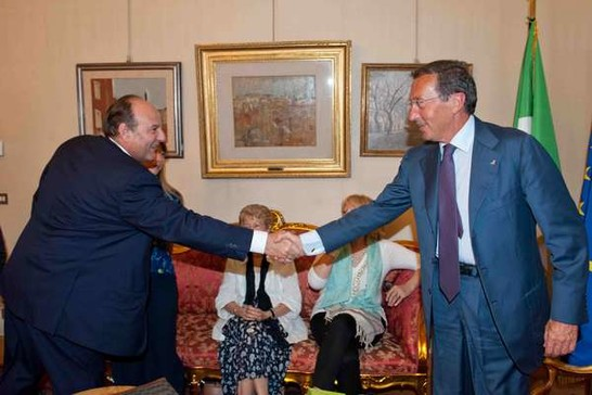 Roma, 22 giugno 2011. Montecitorio. Il Presidente della Camera dei deputati, On. Gianfranco Fini alla presentazione del volume "Un anno di zapping - guida critica all'offerta televisiva". Foto di Alessandro Para